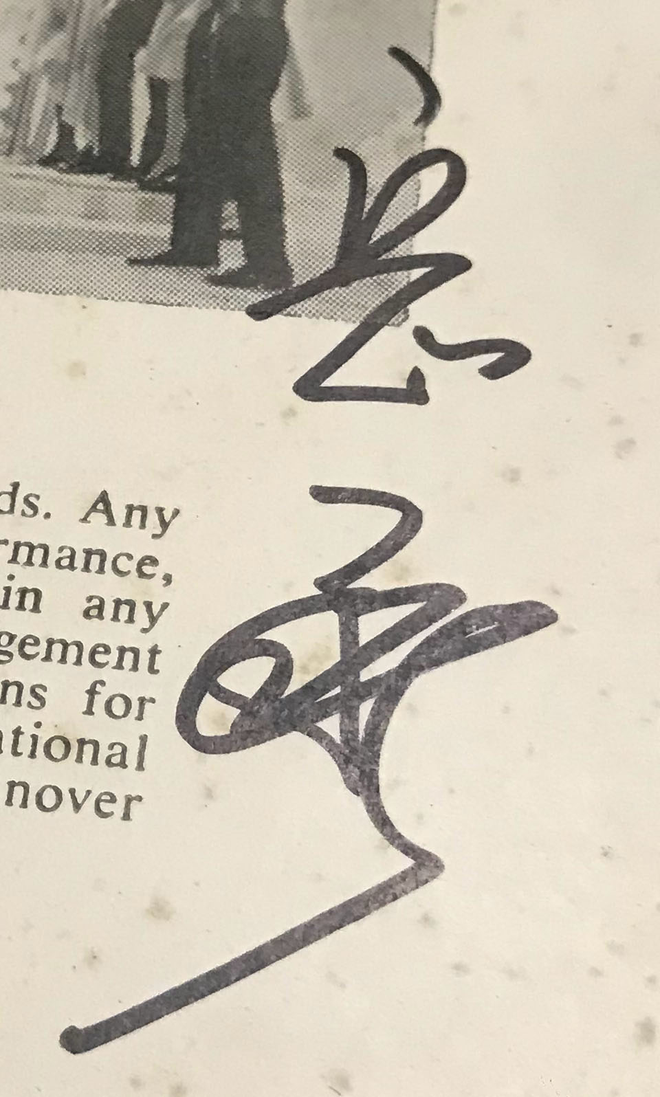 This is Ngok Wah's signature.